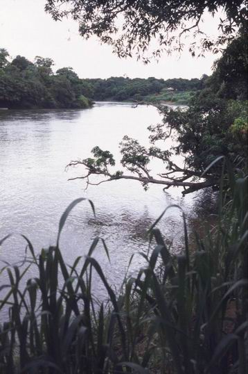 Jurua created by he:משתמש:בן הטבע